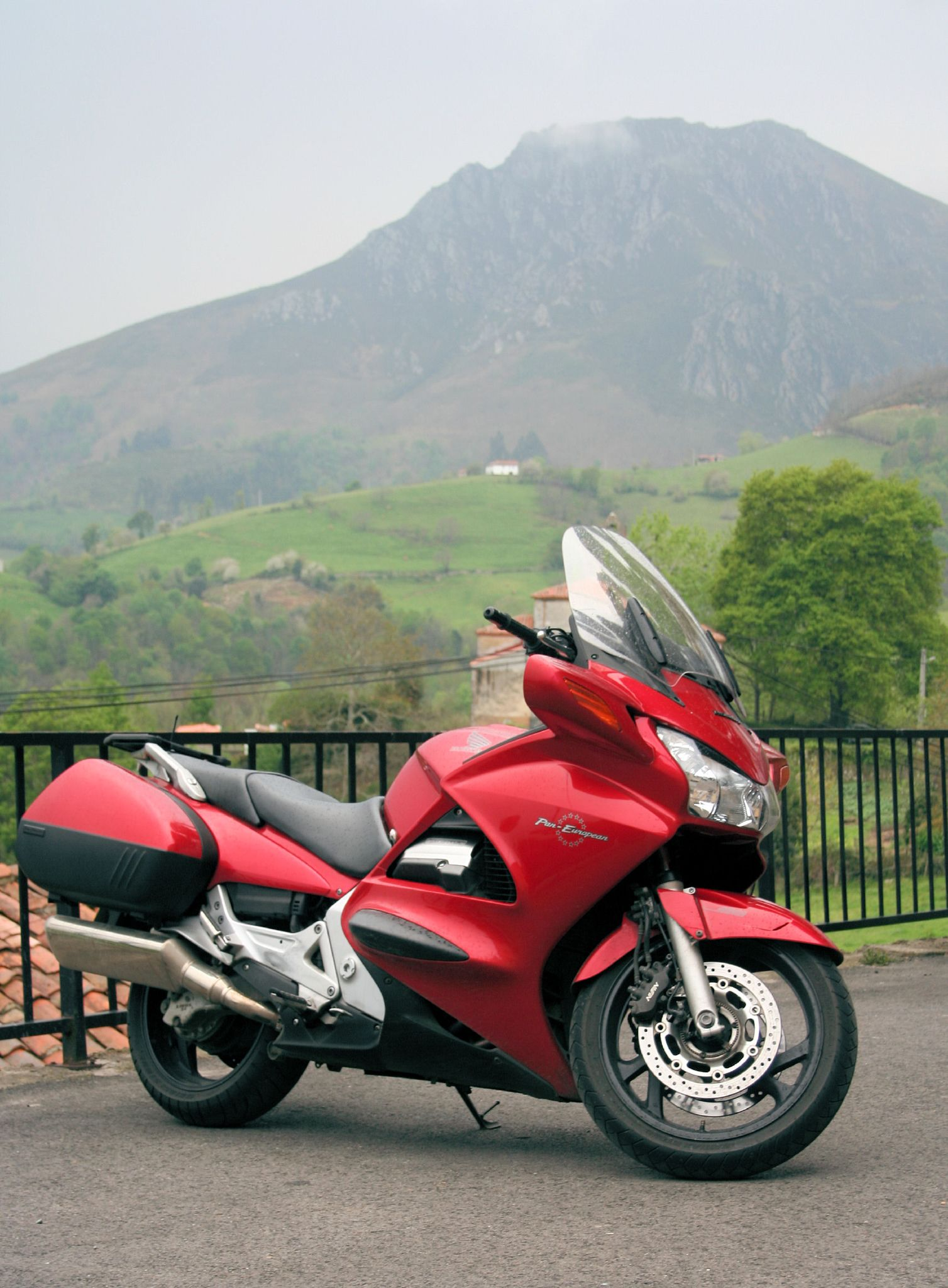 Honda Pan-European 1300cc